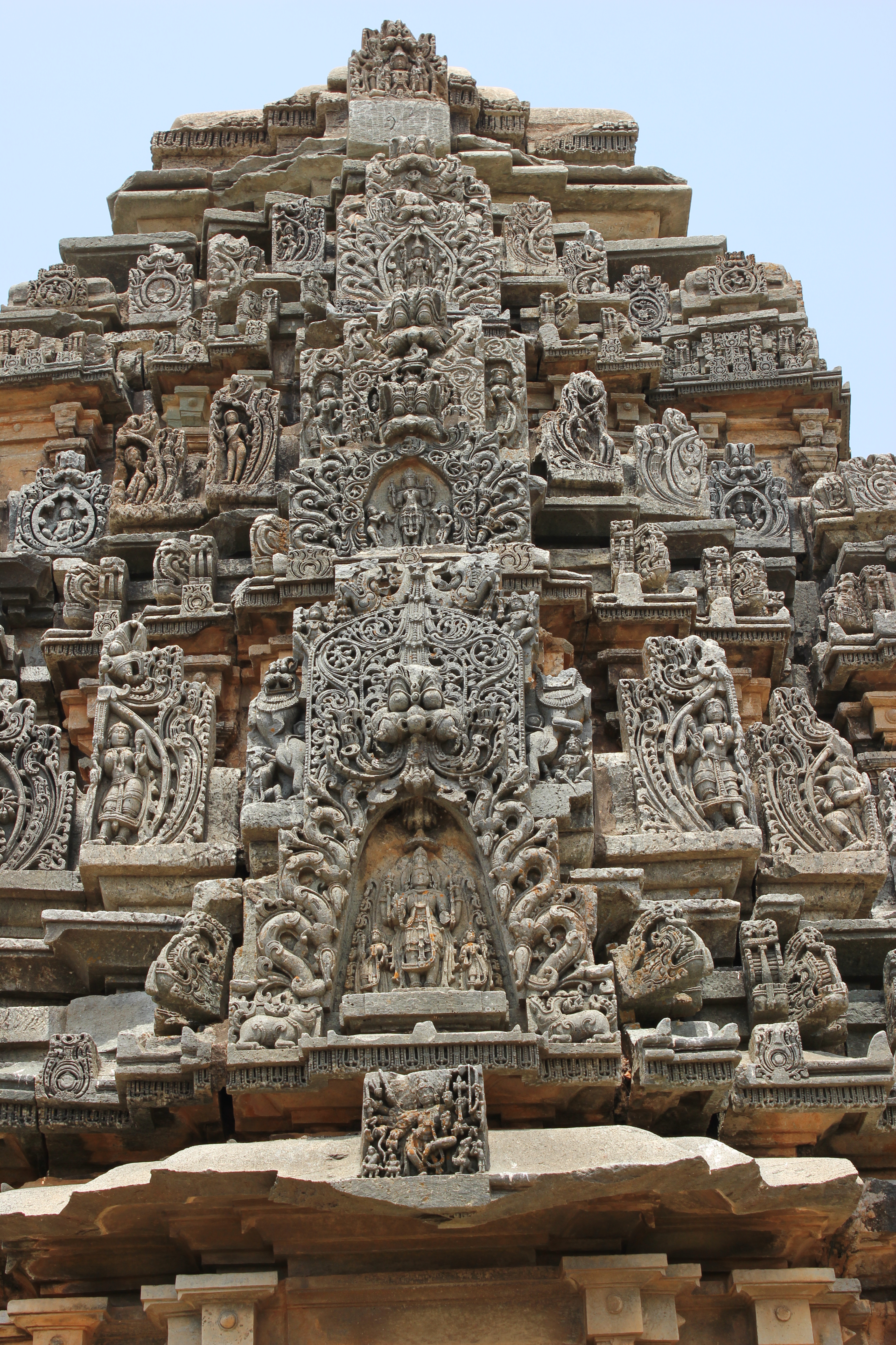 This photograph was taken by me at the Bhimeshvara temple (also spelt Bhimesvara) at Nilagunda (or Neelagunda) in the Davangere district of Karnataka state, India, The temple was constructed during the last quarter of the 11th century A.D. during the rule King Vikramaditya VI of the Western (Kalyani) Chalukya dynasty